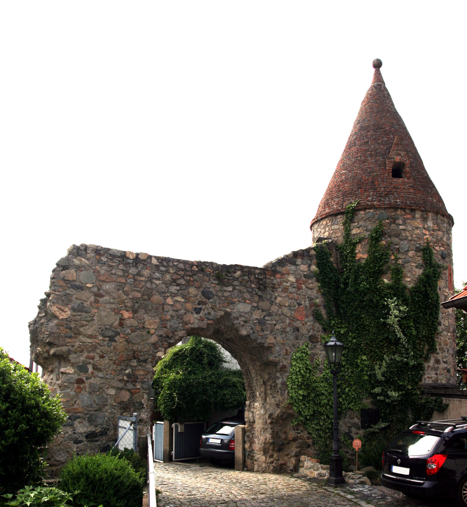 The Aul, remains of the former fortification of Zwingenberg (Hesse, Germany).